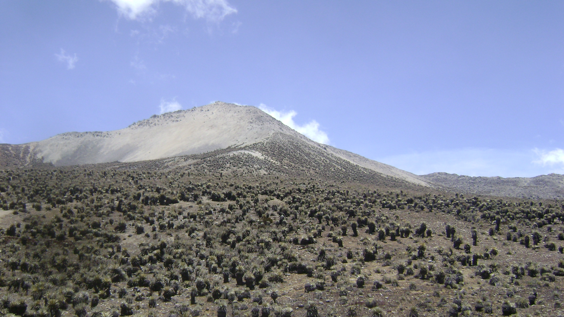 Merida